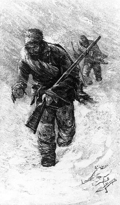 Nindemann and Noros in search of help. Engraving on Wood by George T. Andrew after a design by Milton T. Burns.